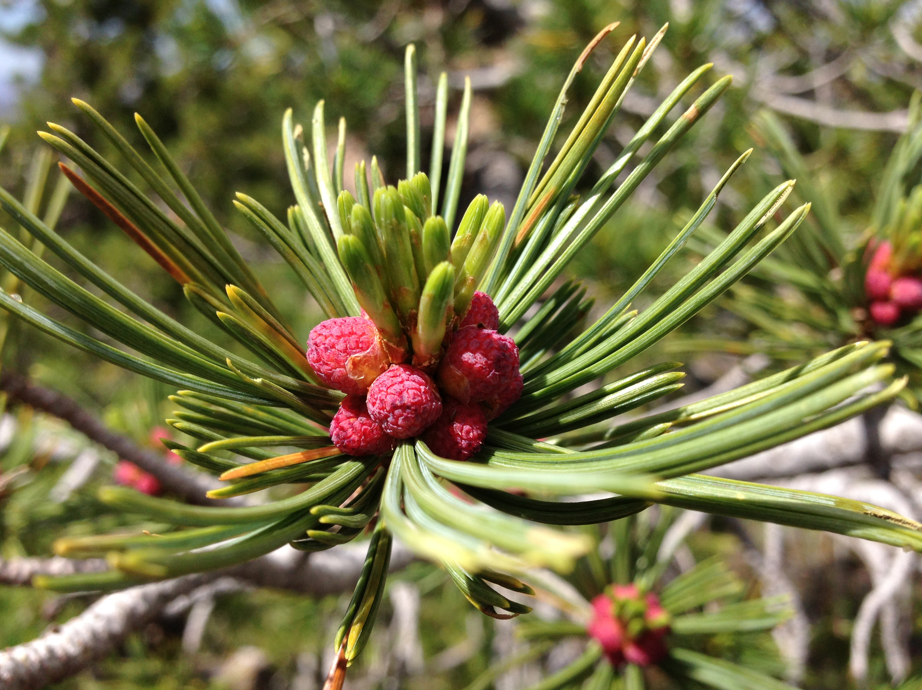 Pinus albicaulis (Whitebark Pine) pollen cones on Copper Mountain, Nevada